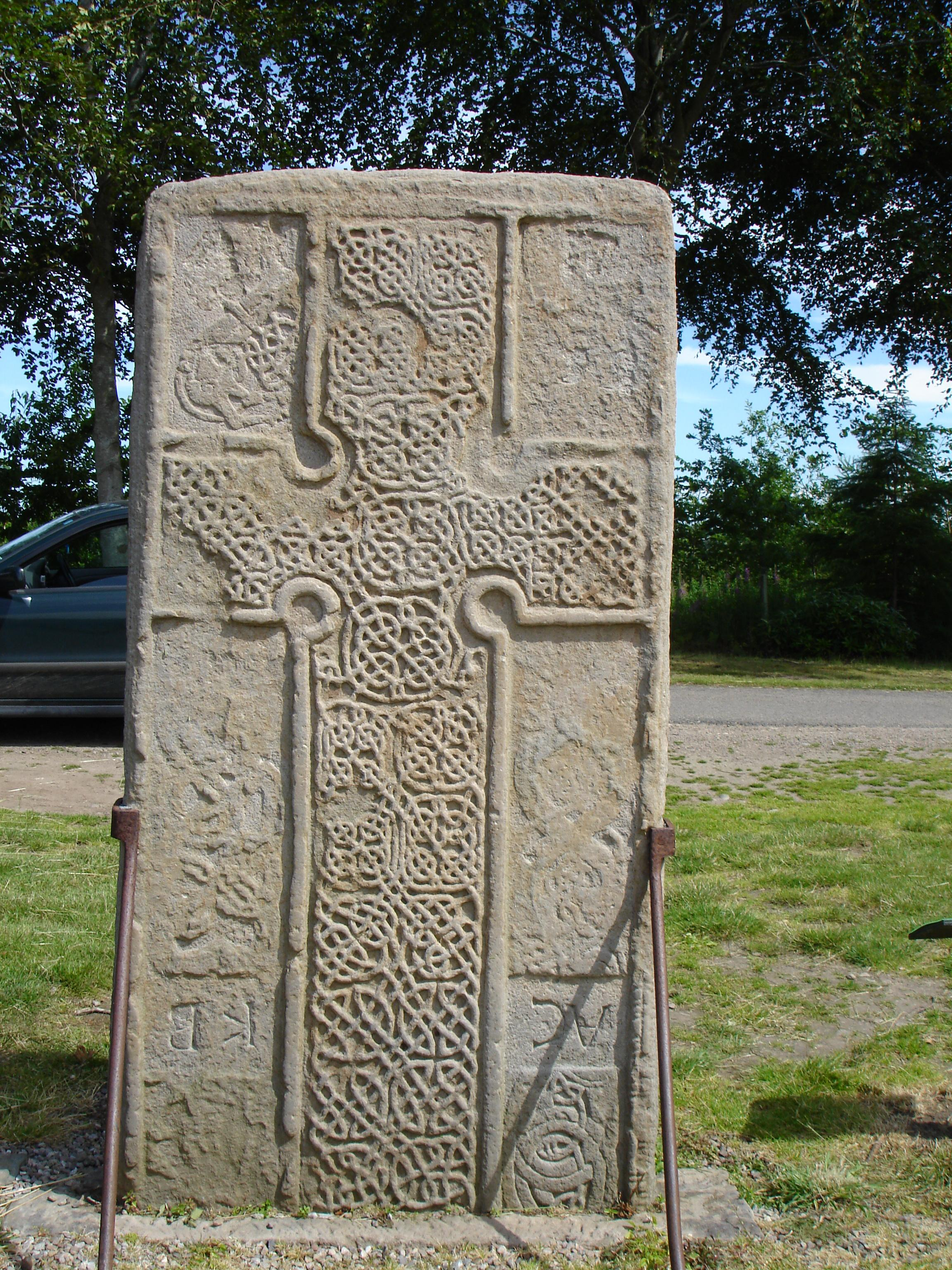 Rodney's Stone at Brodie Castle. This fine Pictish Stone was found at the nearby Dyke church and relocated to the side of the entrance drive.